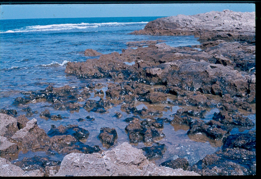 Ancient_harbor__of_Dor_now_full_of_stone